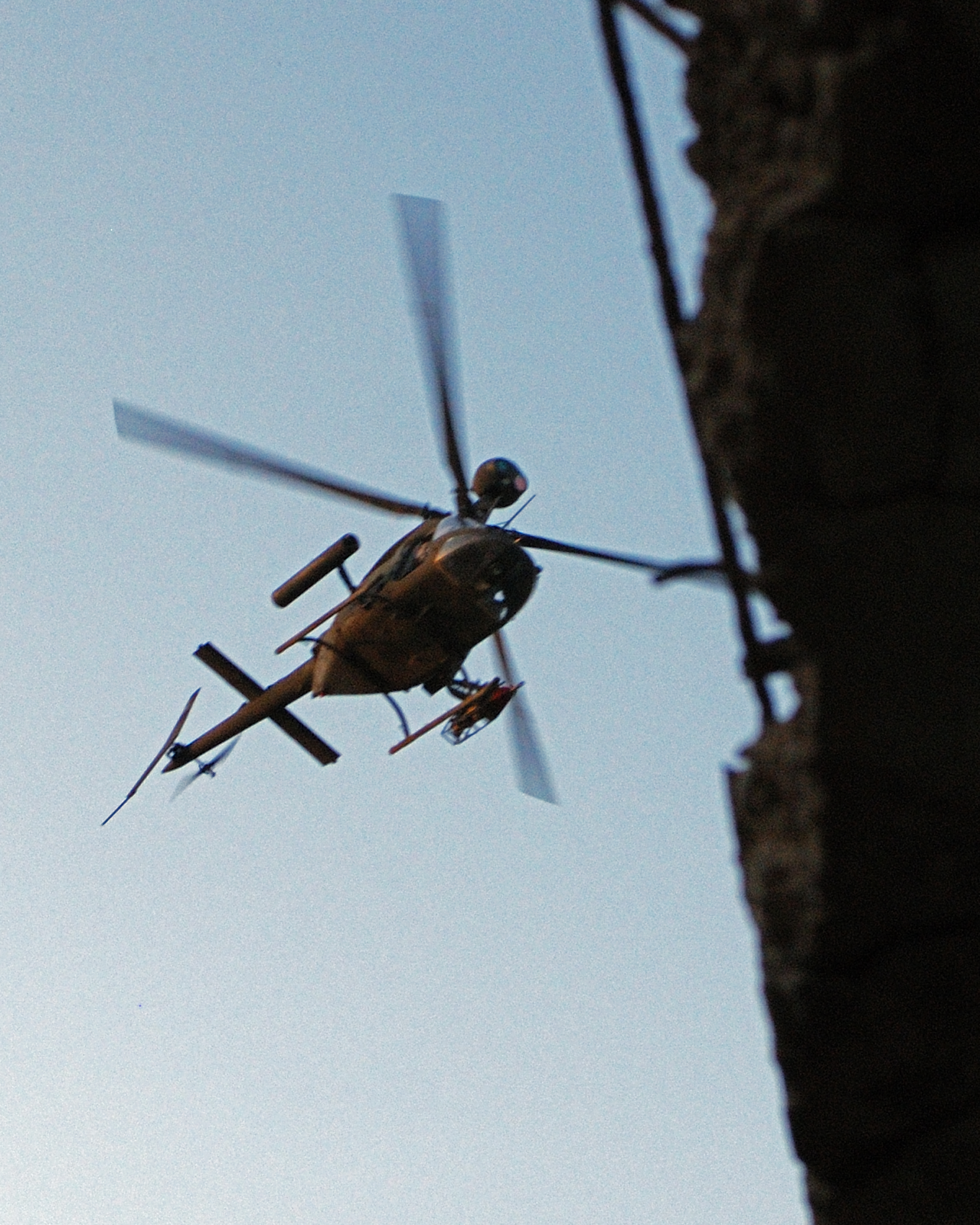 An OH-58D Scout/Observation Helicopter from the 3rd Combat Aviation Brigade, 3rd Infantry Division, provides air cover for Coalition forced engaged in Operation Marne Torch June 28, 2007.